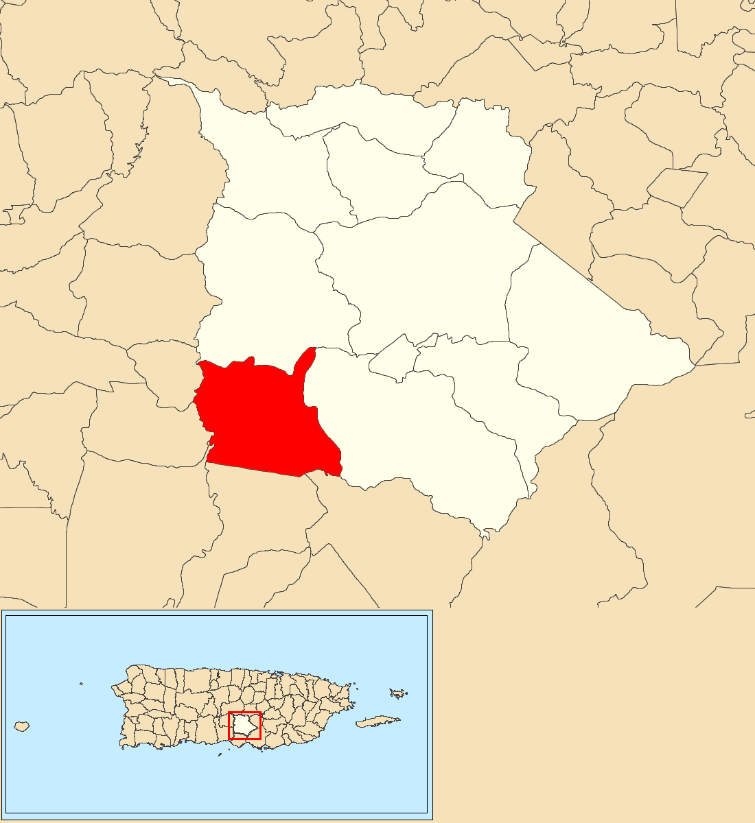 Los Llanos, Coamo, Puerto Rico, locator map